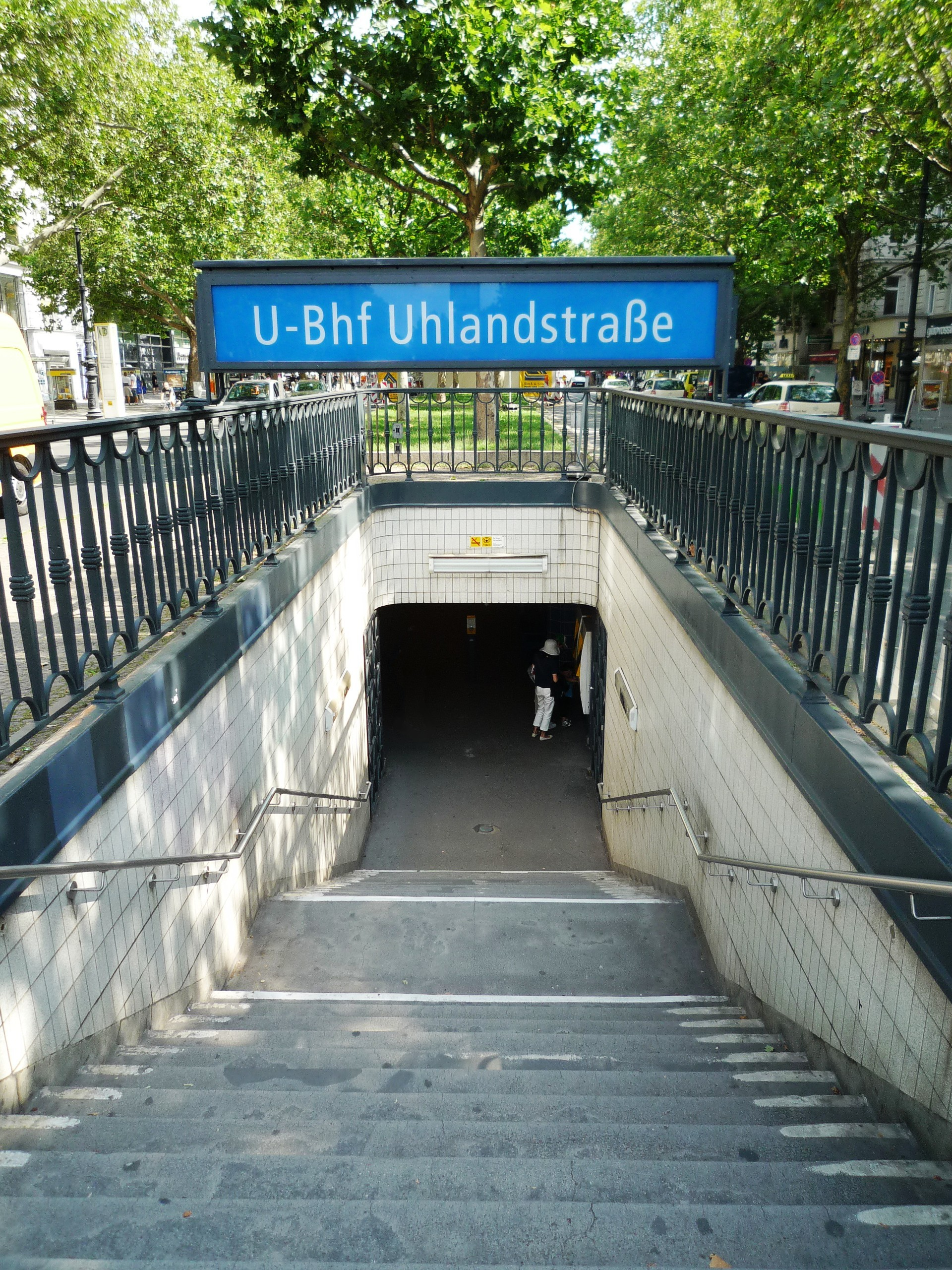 Berlin, Kurfürstendamm. Subway-station Uhlandstraße, entrance.